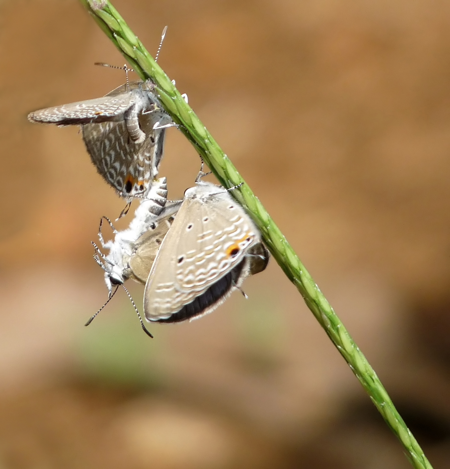 Chilades pandava, Plains Cupid, is a species of Lycaenid butterfly found in South Asia. They are among the few butterflies that breed on plants of the cycad family.